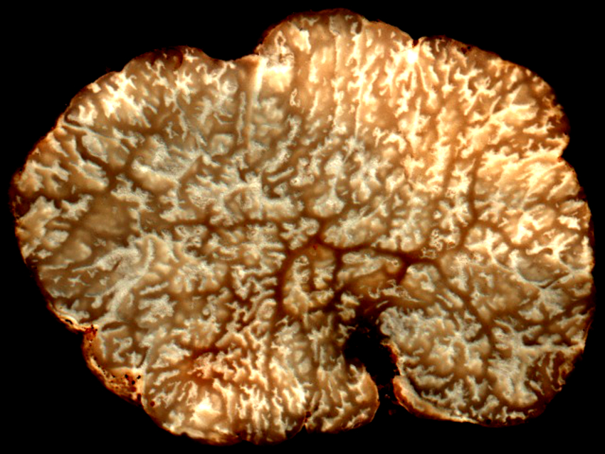 Cut of a fruit body of Tuber oligospermum